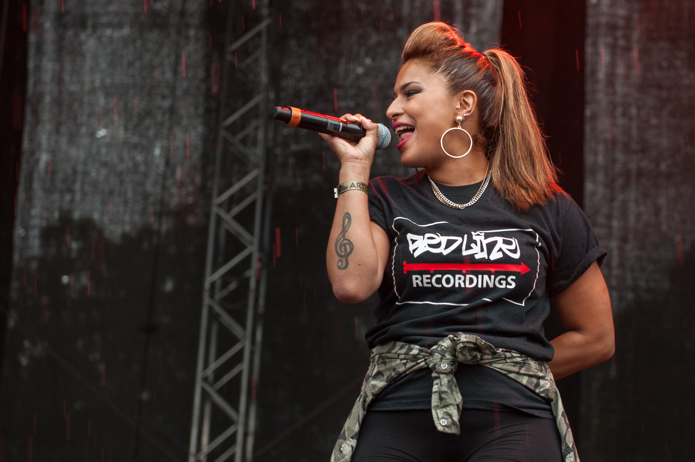 Linda Pira at Way Out West in Gothenburg, Sweden, august 2014